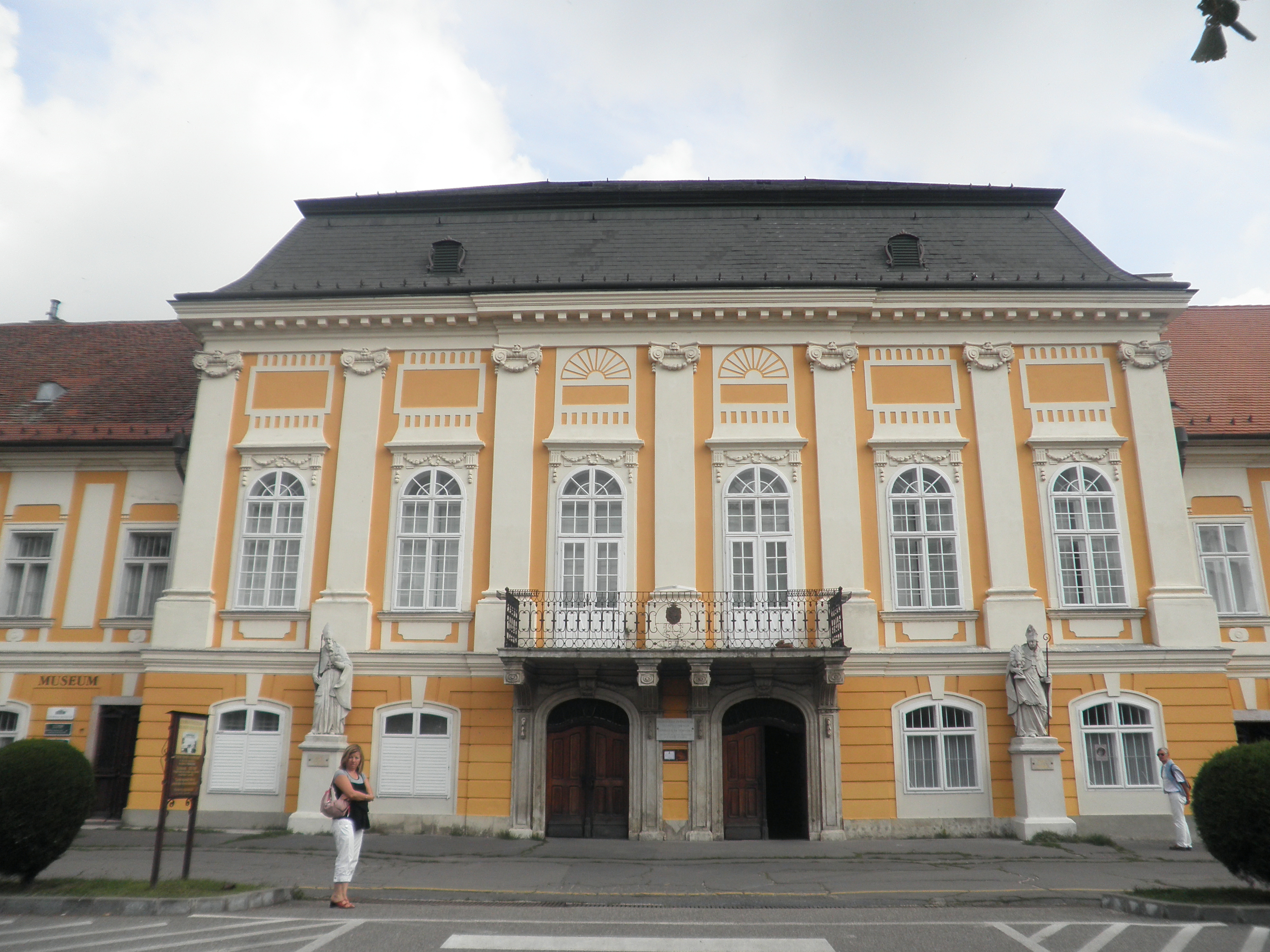 Premonstratensian abbey, Csorna, Hungary